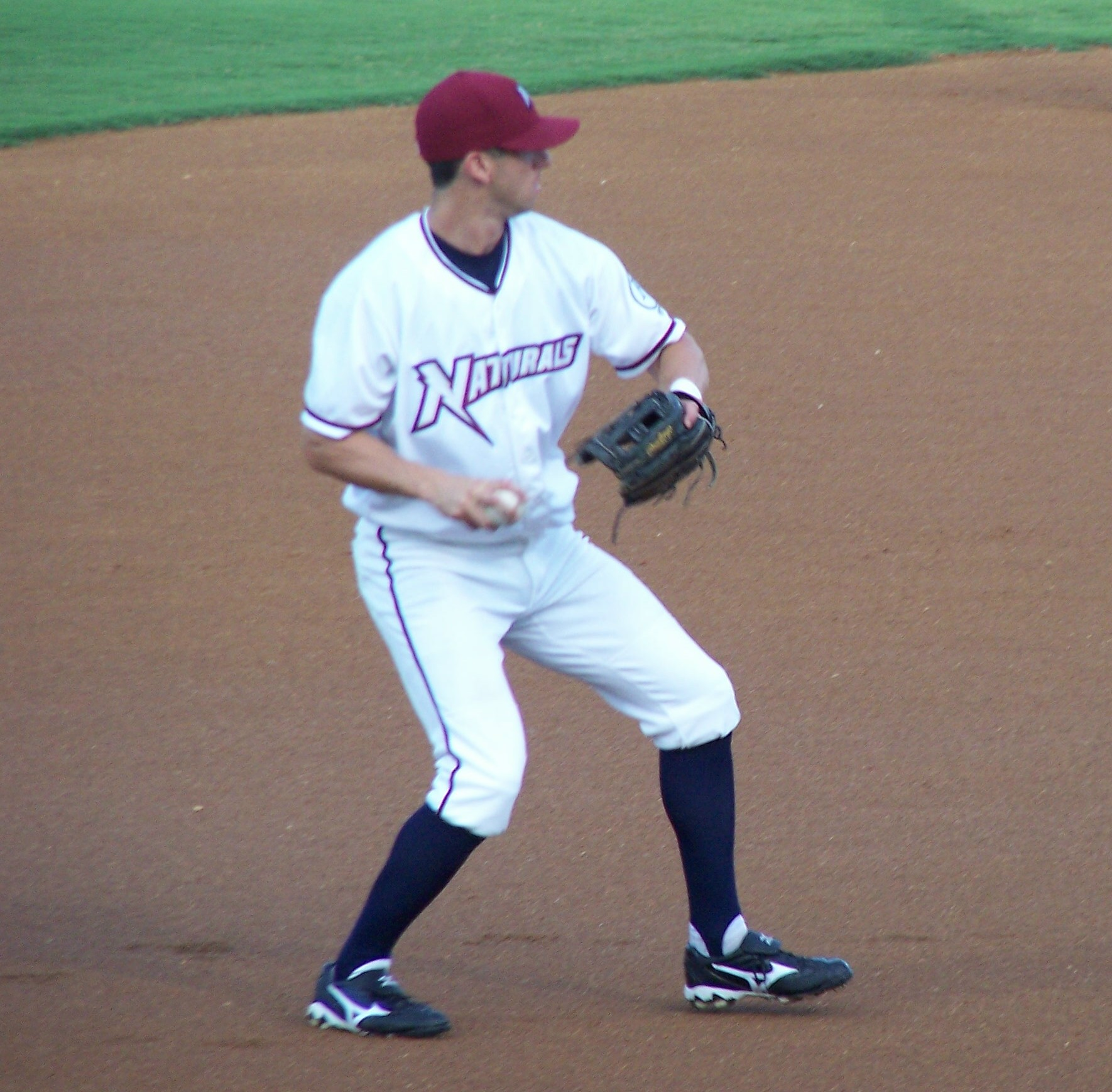 Ed Lucas playing for the Northwest Arkansas Naturals.